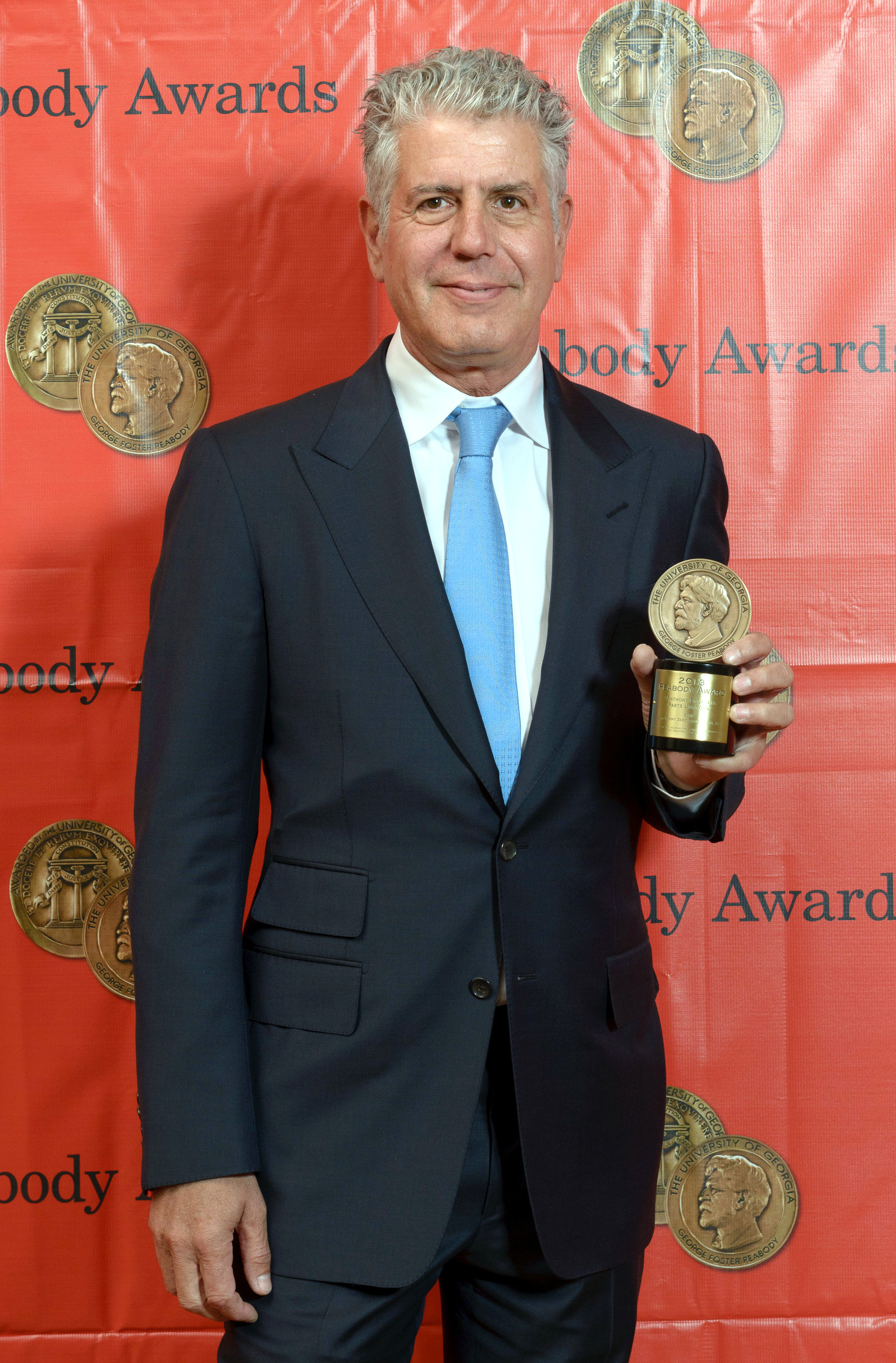 Anthony Bourdain at the 73rd Annual Peabody Awards for "Parts Unknown"